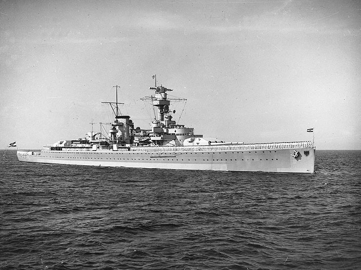 The German "pocket battleship" Deutschland with her crew manning the rails, 1935. This ship was reclassified as a heavy cruiser and renamed Lützow in 1939.